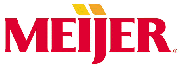 Previous logo for Meijer, used from 1970s? until 2006-2007